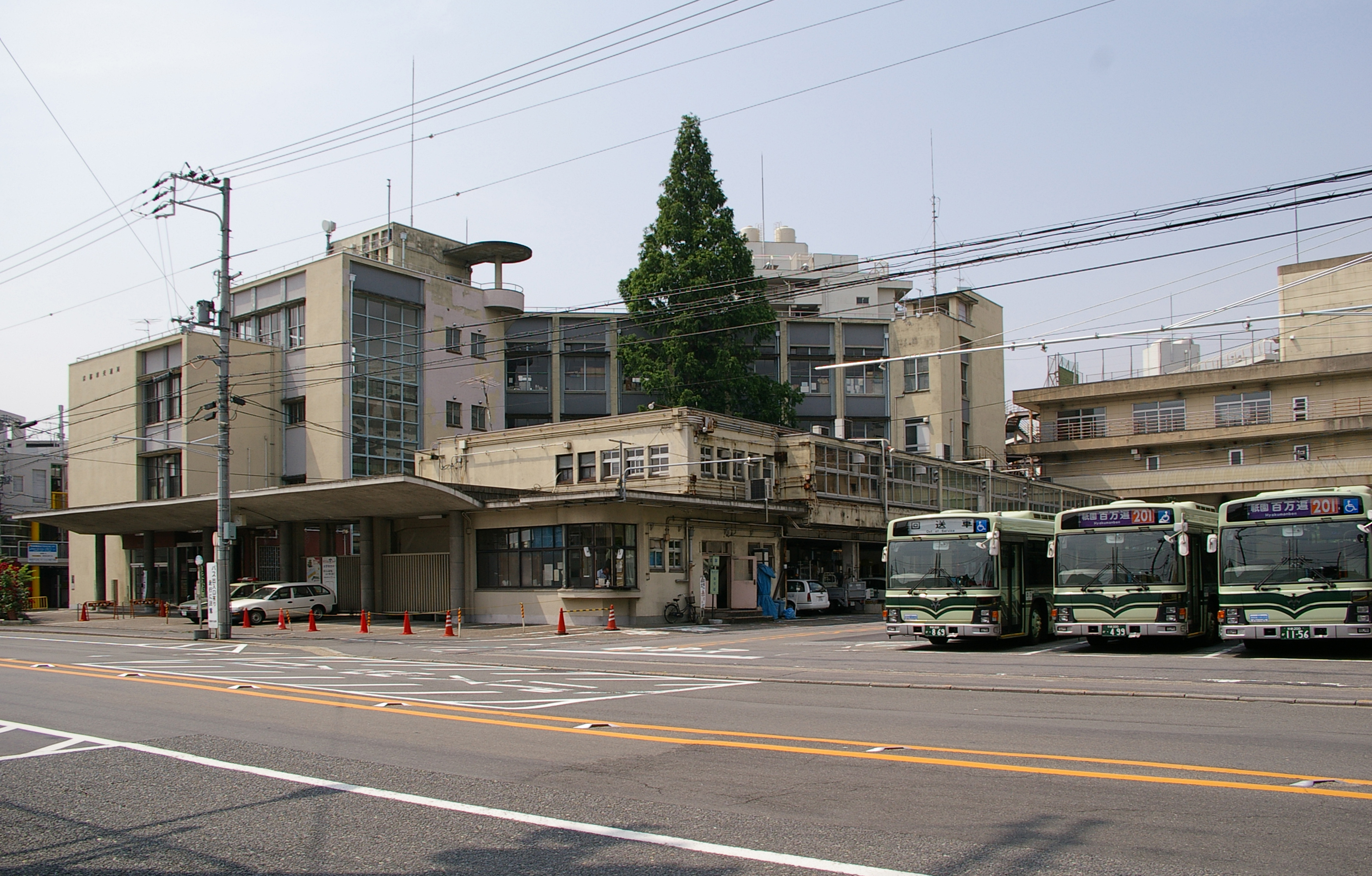 Photograph of Kyoto Municipal Transportation Bureau's office in Nakagyo-ku, Kyoto, Kyoto Prefecture, Japan.